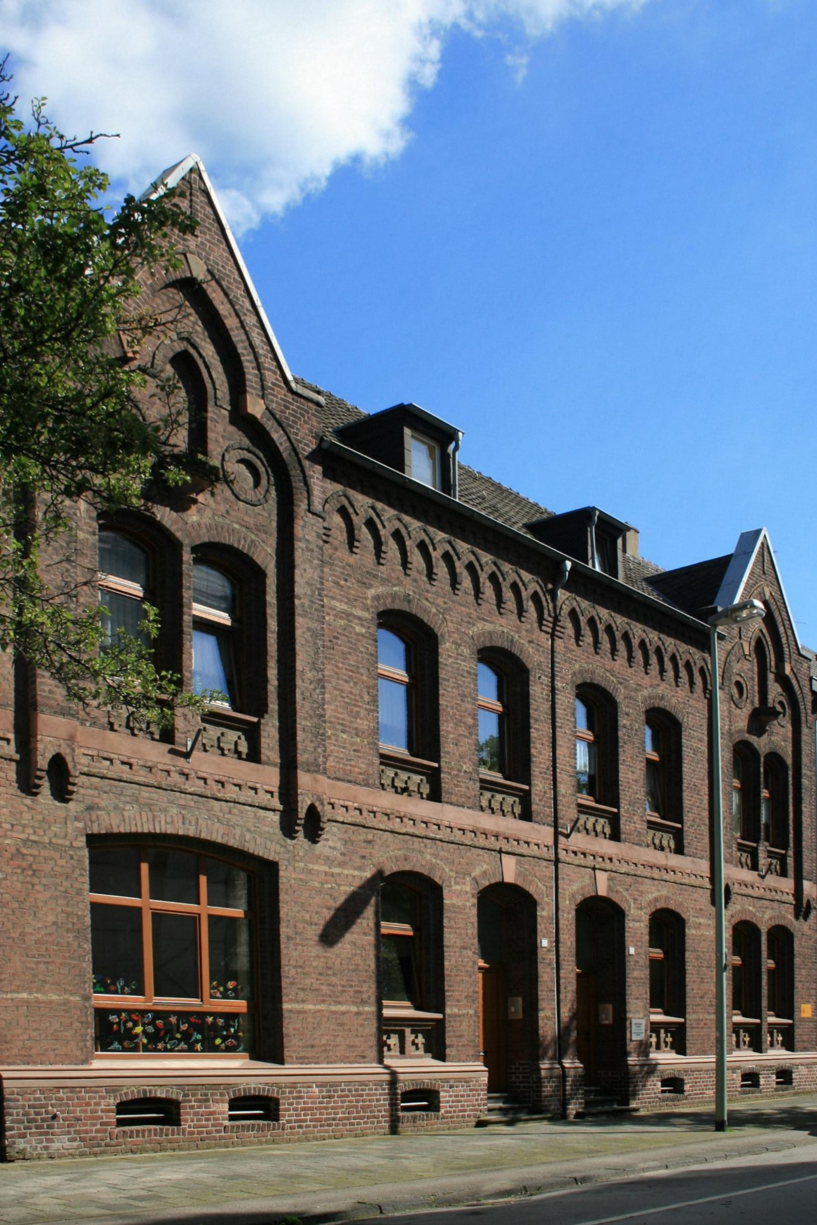 Cultural heritage monument No. R 038 in Mönchengladbach